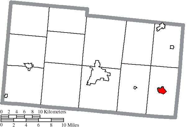 Map of the municipal and township boundaries of Champaign County, Ohio, United States, as of the 2000 census, with the location of the village of Mechanicsburg highlighted. Township borders are shown only in unincorporated areas in order to differentiate incorporated and unincorporated areas more clearly.